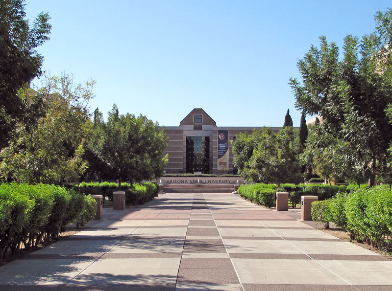 Main Entry to the ASU west campus